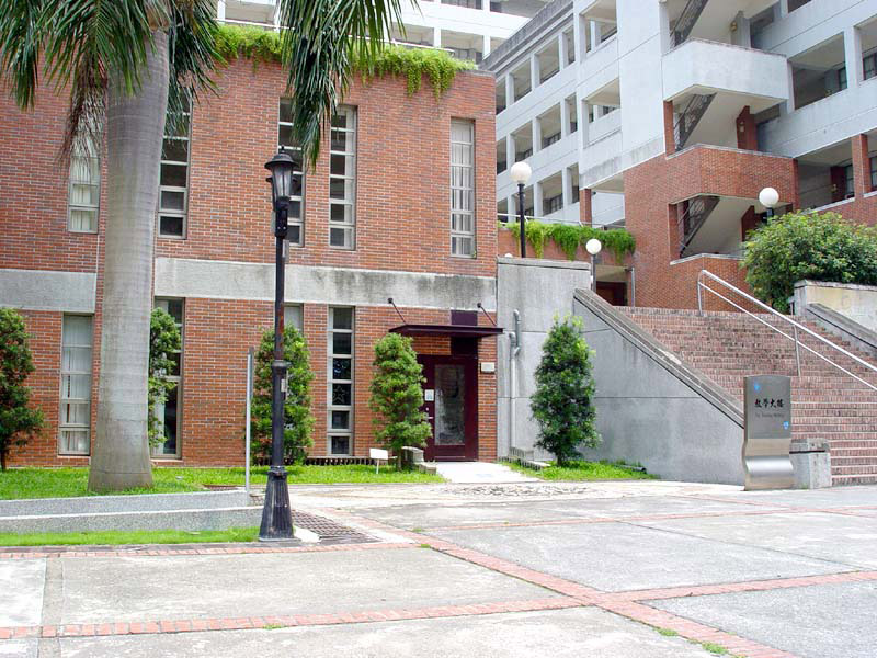 朝陽科技大學教學大樓 Teaching Building at Chaoyang University of Technology Photo taken by JWR on Aug 1, 2006